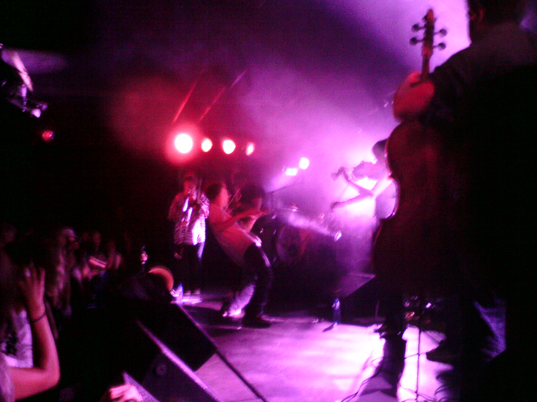 Kyteman's Hip-Hop orchestra live at Het Burgerweeshuis, Deventer, The Netherlands 16 May 2009